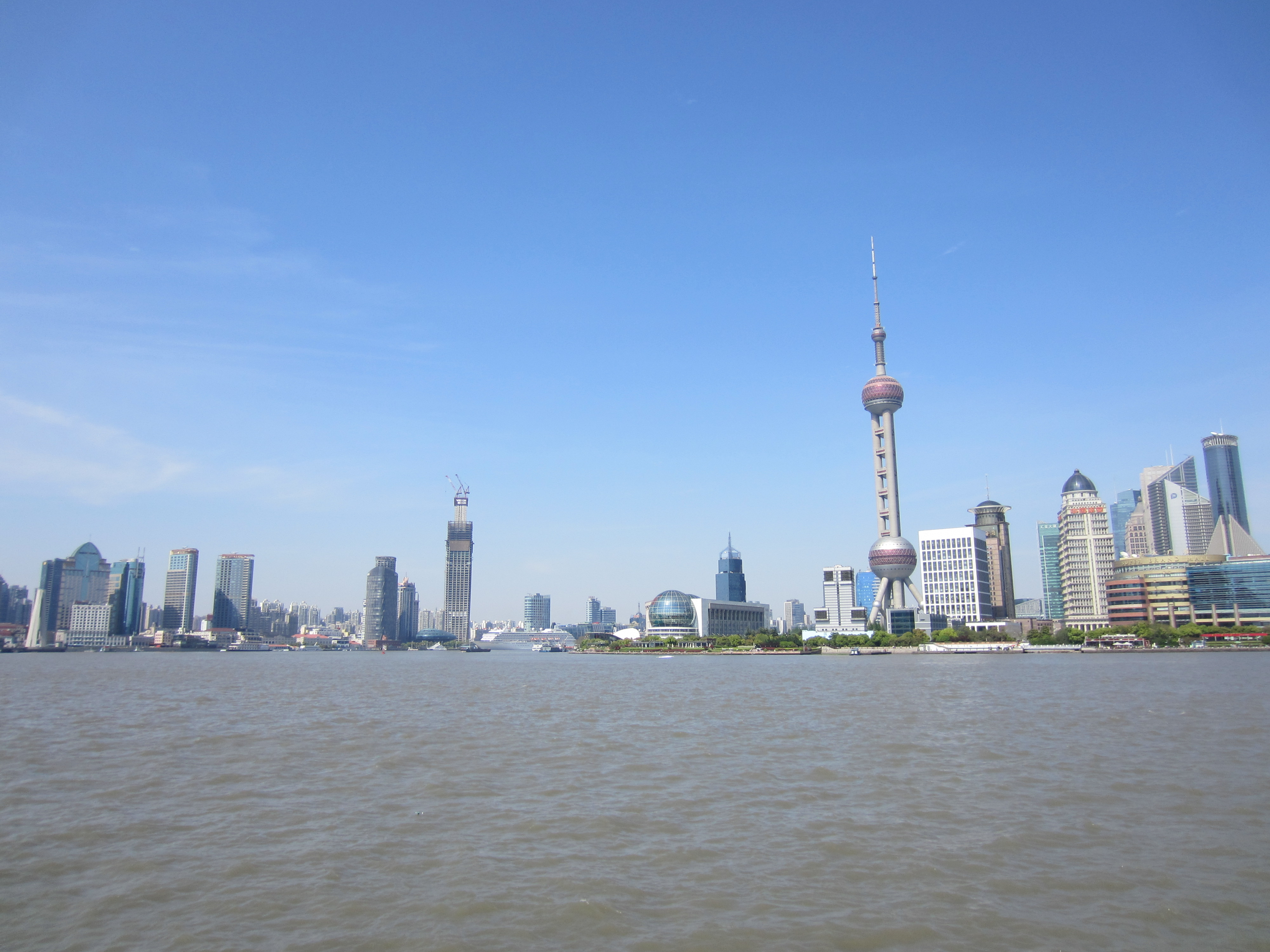 A sailing on the Huangpu River shows you a spectacular view of the scenery.